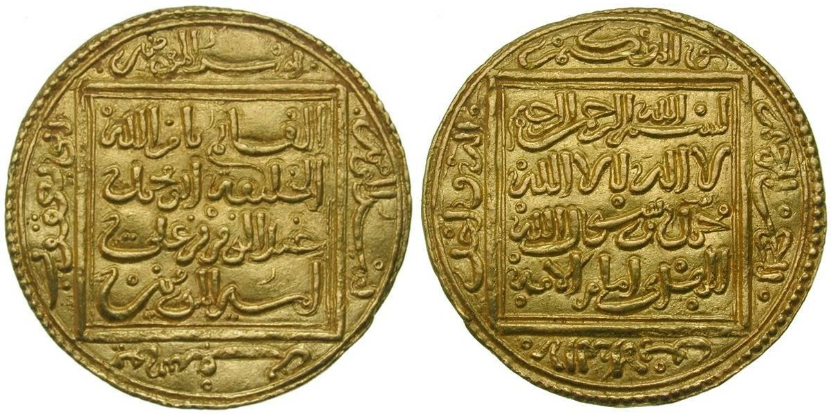 Coin of Almohad Caliph Abu Yaqub Yusef (1163-1184 CE).